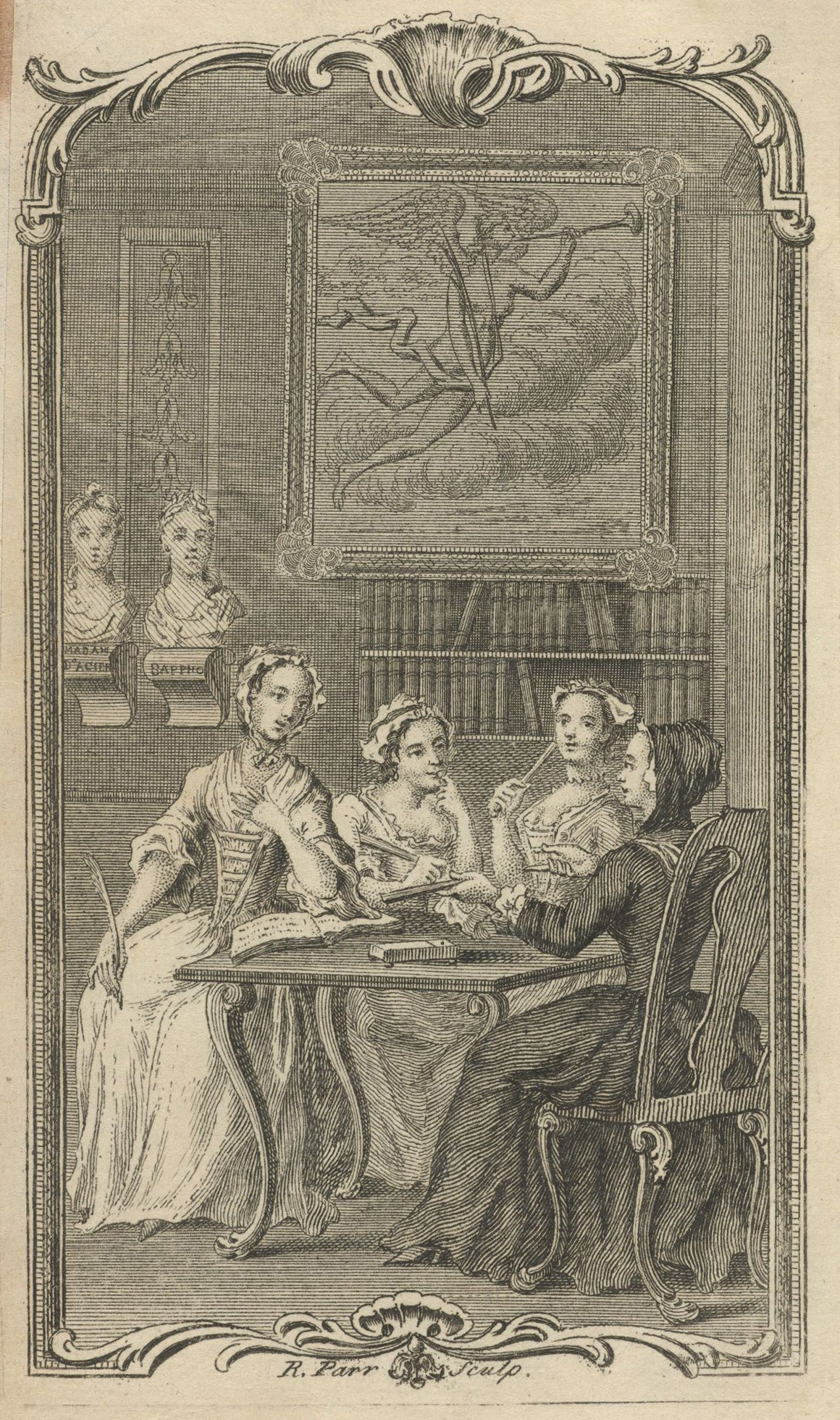 Frontispiece to The Female Spectator, London: 1746, by Eliza Fowler Haywood (1693?-1756). Ostensibly written by 4 women but probably the work of Mrs. Haywood alone. *EC7.H3362.746f, Houghton Library, Harvard University